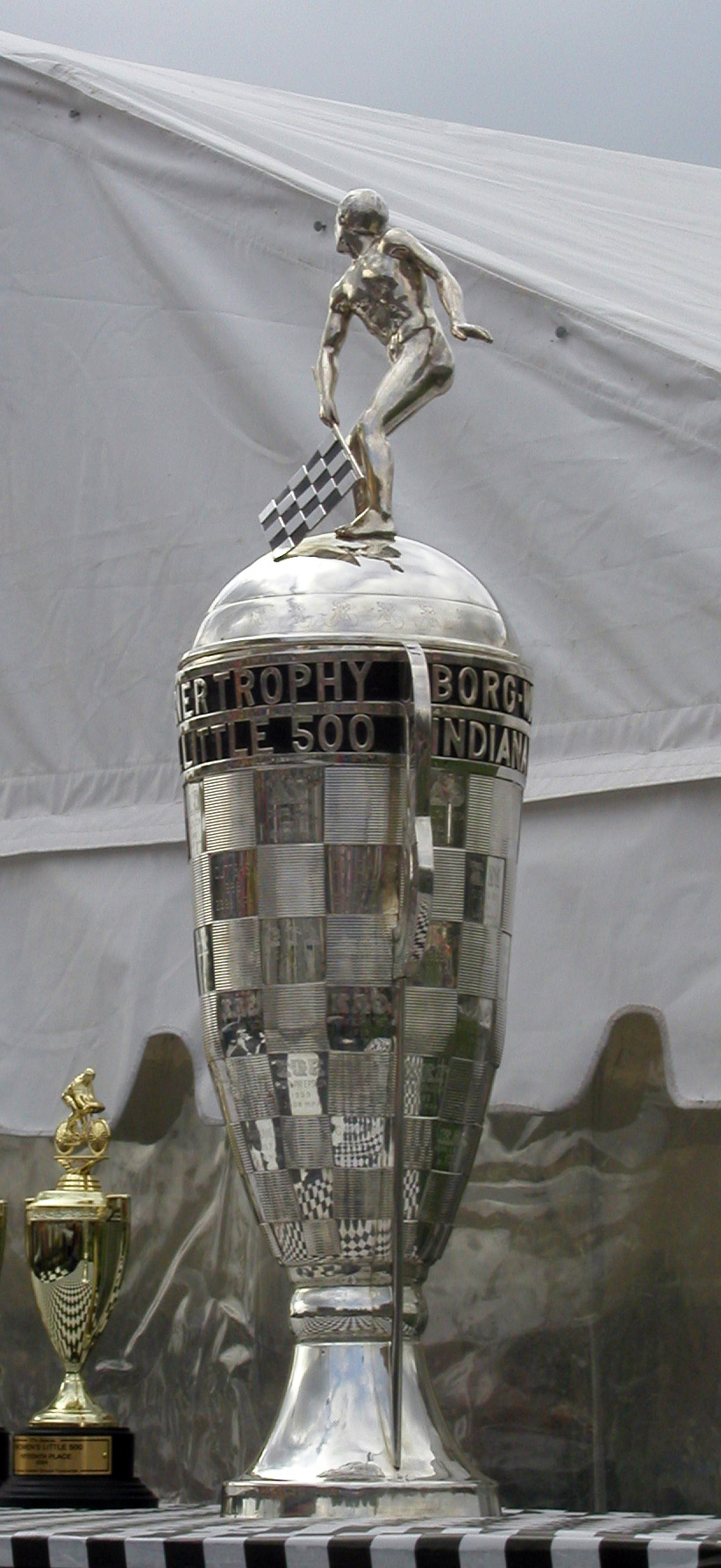 The BorgWarner trophy for the Women's Little 500. Photo taken in April, 2004 by User:Durin-en